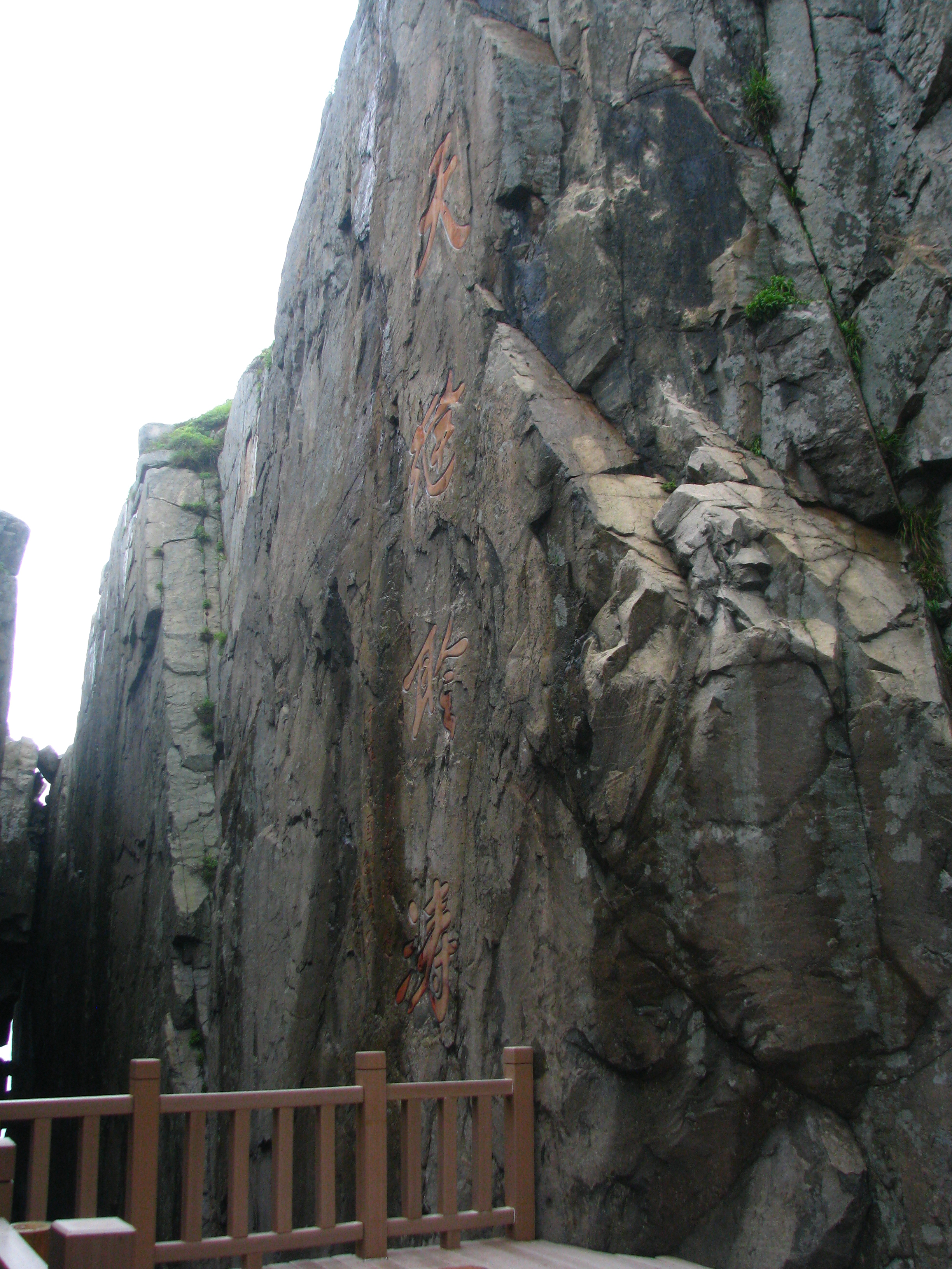 A landscape in Dongyin, Lienchiang county, Taiwan.